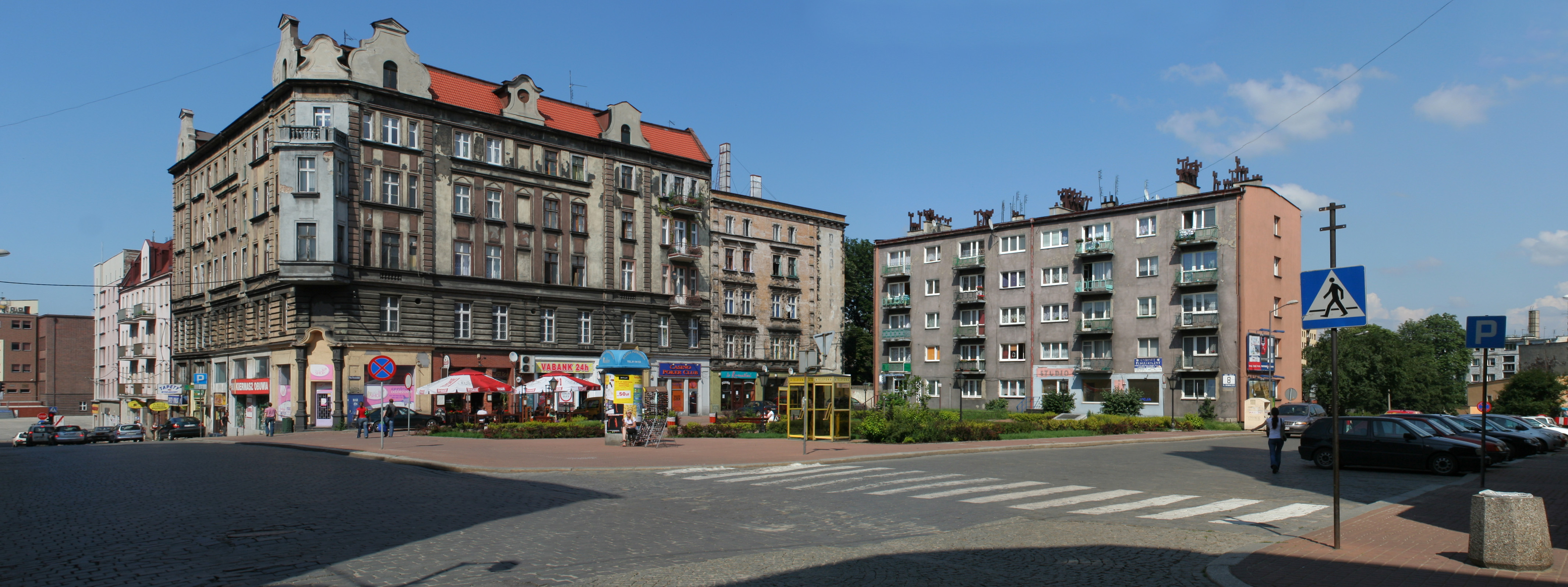 Grunwaldzki Square in Bytom.